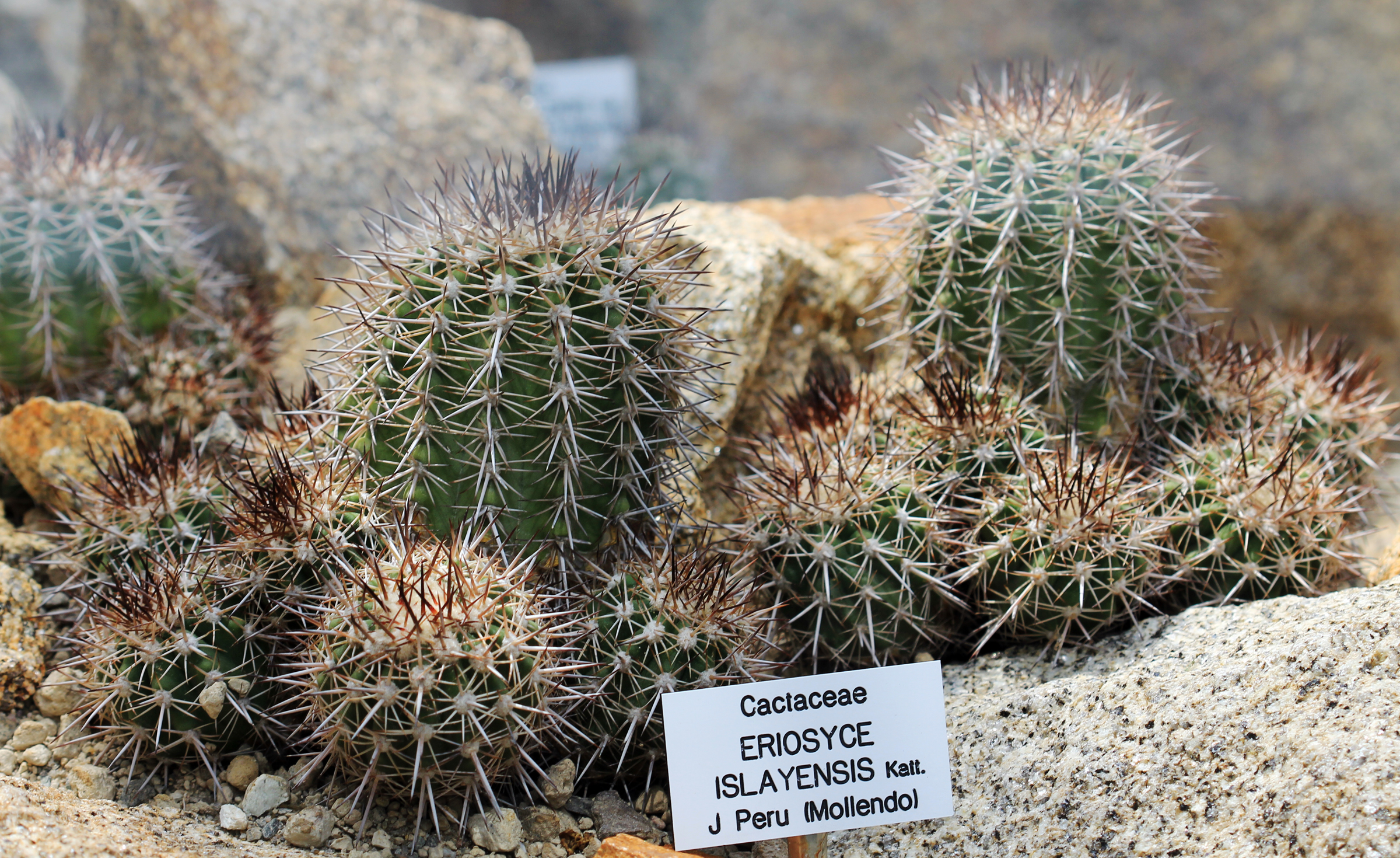 Cactus Eriosyce islayensis, The Botanical Gardens of Charles University, Prague, Czech Republic